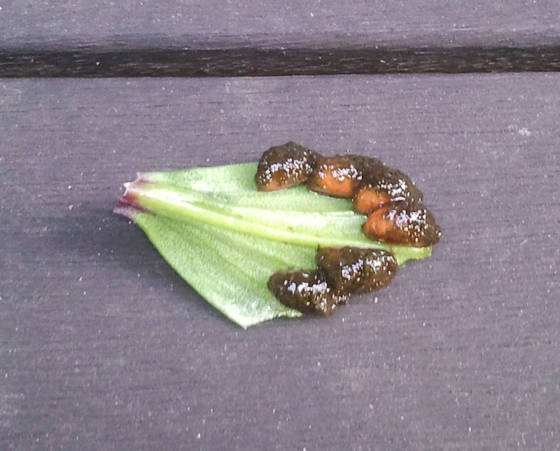 Lilioceris lilii